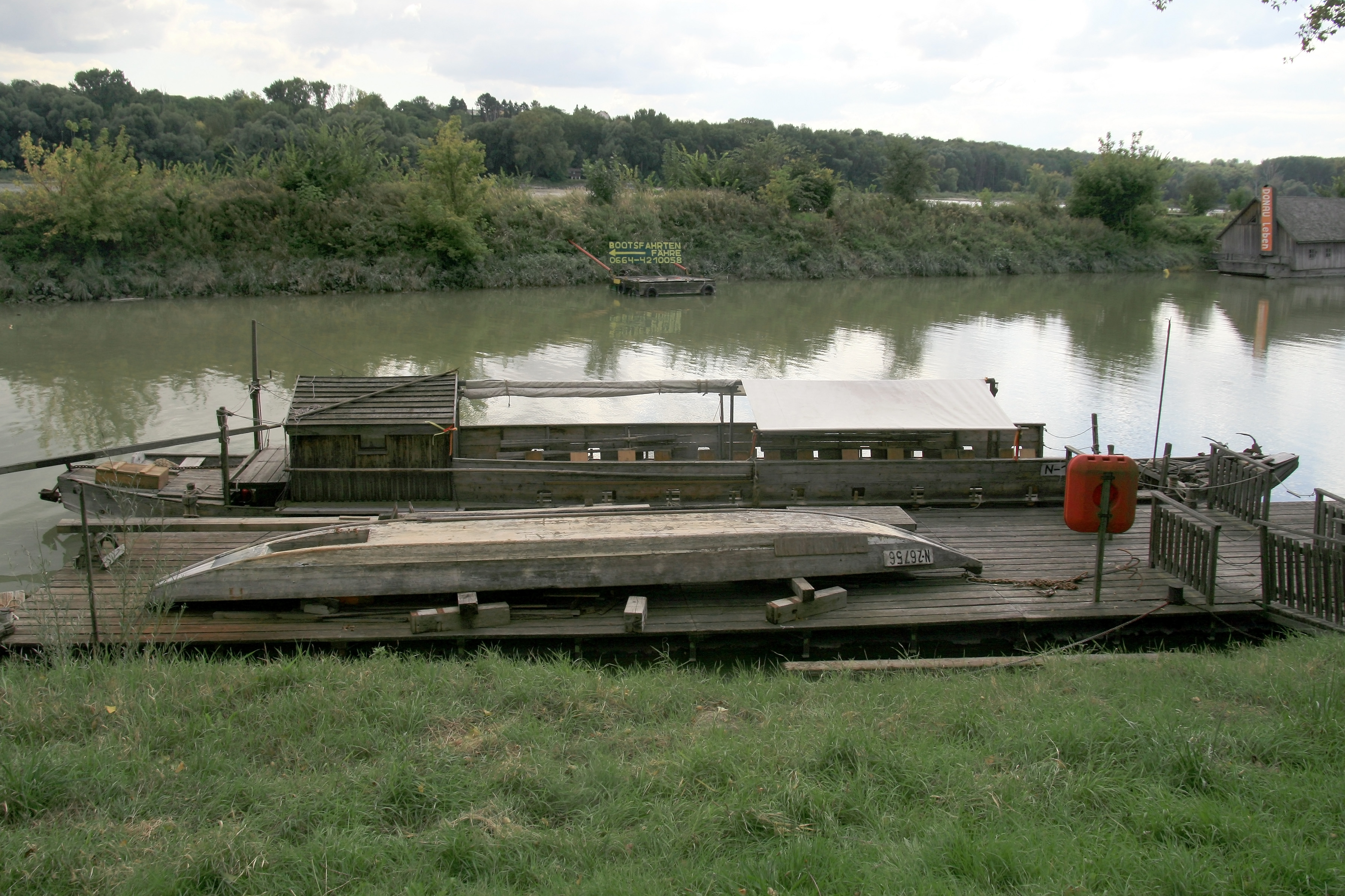 Tschaike at a berth at an anabranch of Danube river in Danube-Auen National Park (Orth an der Donau, Austria). This file shows the National Park Donau-Auen in Austria.